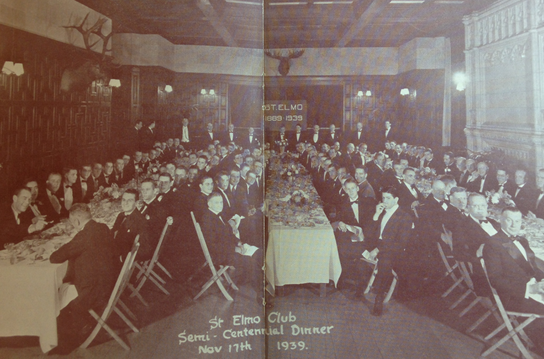 St Elmos semi-centennial